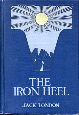 title of 1st edition